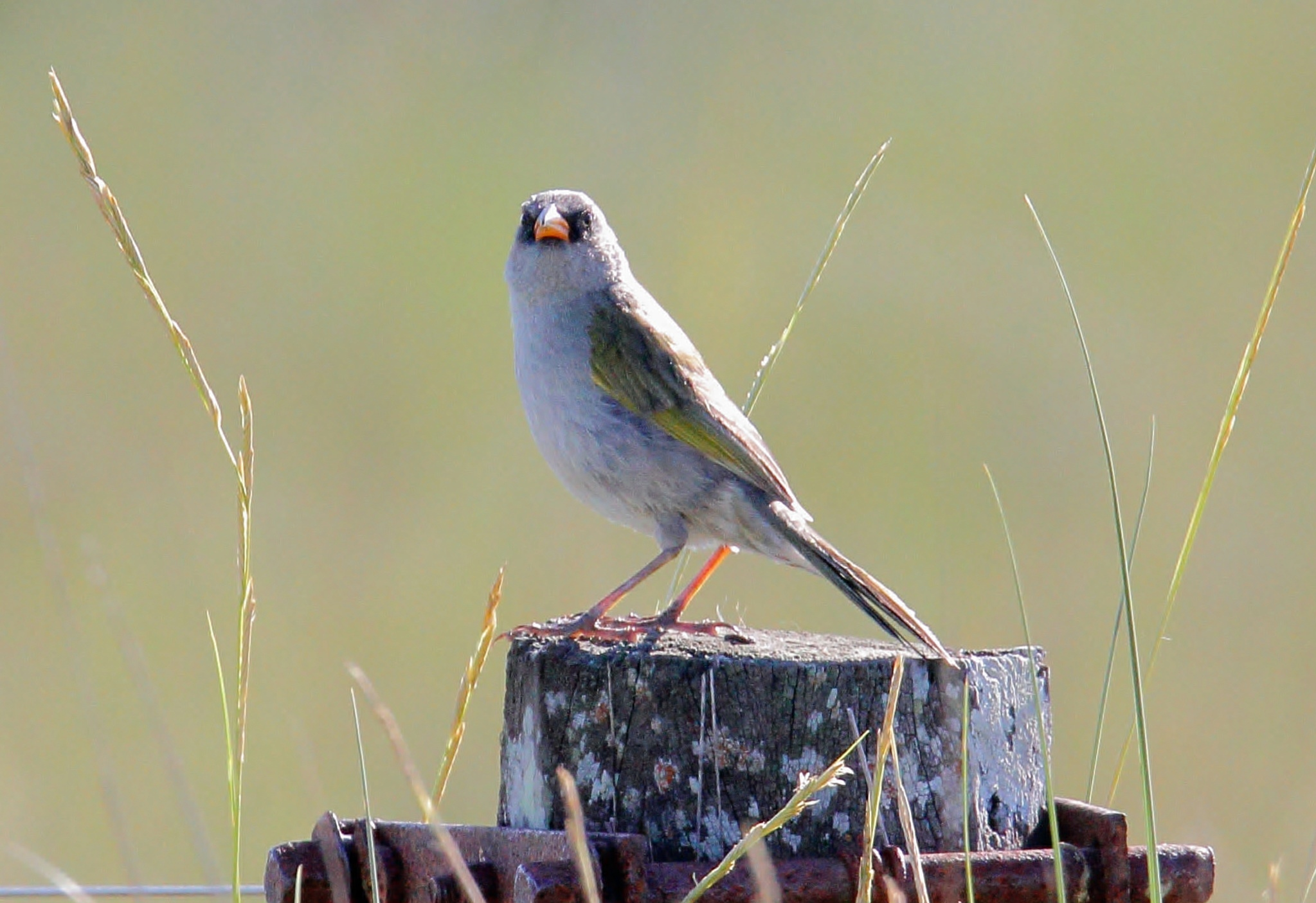 Great Pampa Finch (Embernagra platensis platensis)